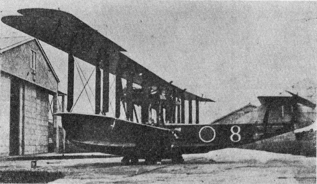 Navy Ｆ.5 flying_boat. Ten were built by Yokosuka Arsenal (including six imported unassembled), ten (approx) by Hiro Arsenal and forty by Aichi